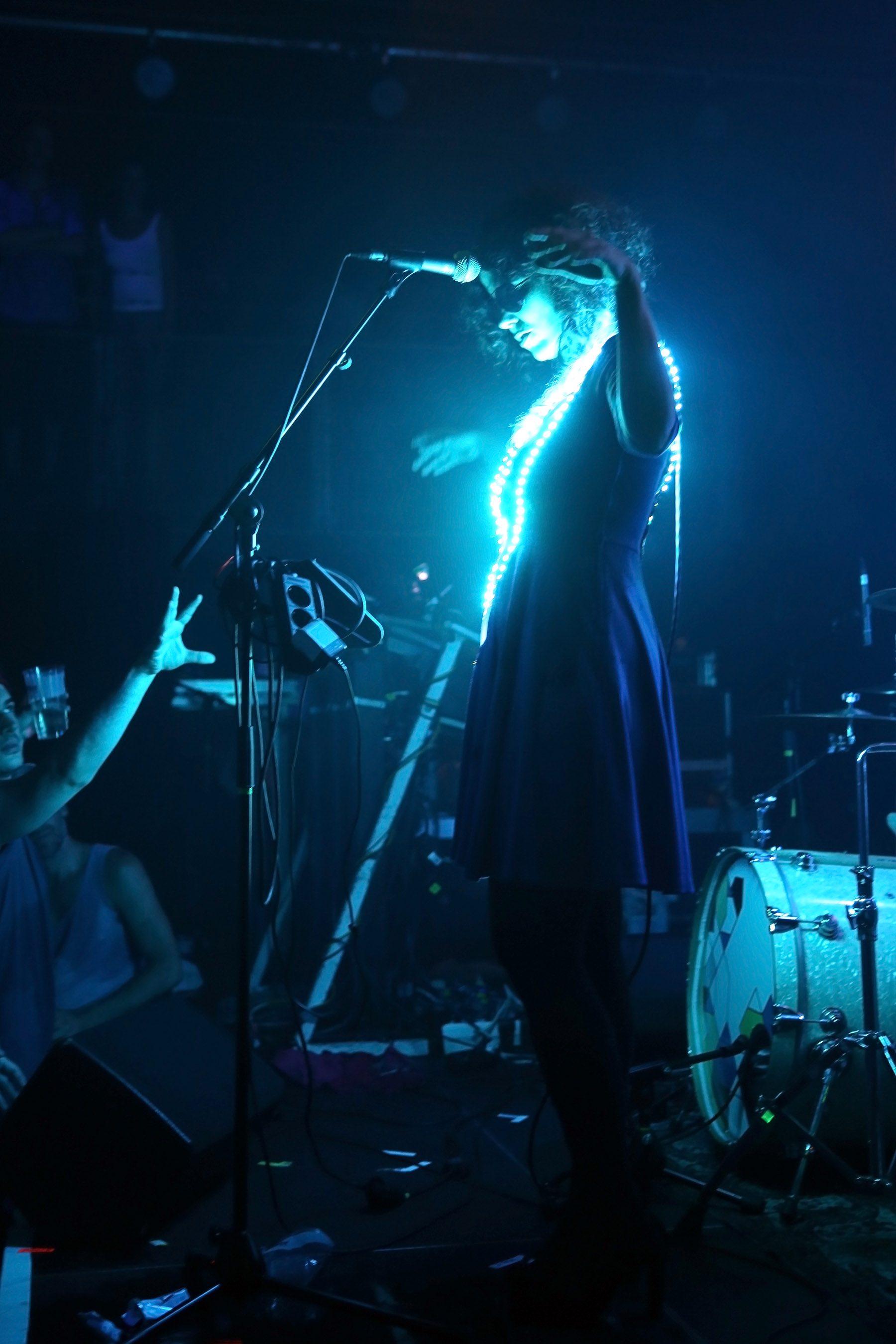 Gudrun von Laxenburg feat. Eloui, concert at brut im Künstlerhaus during Popfest 2013 in Vienna, Austria.